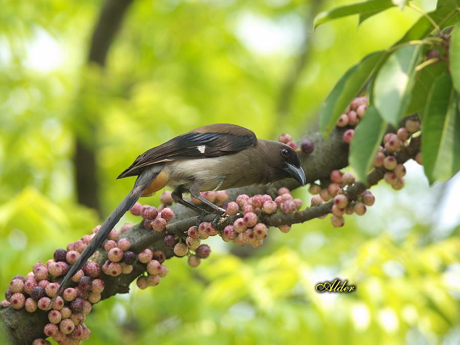 Taken at Da-an Park, Taipei.